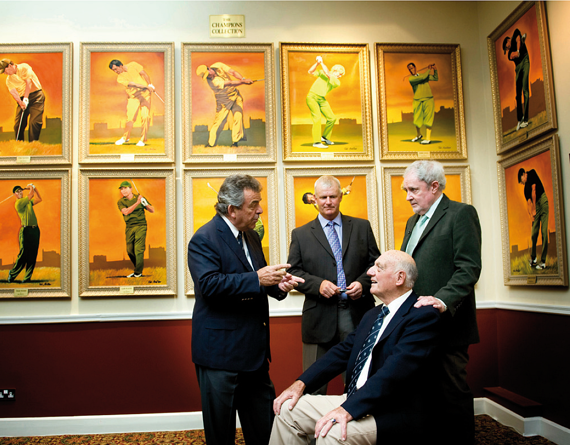 Joe Austen & golfers at Gallery of Champions